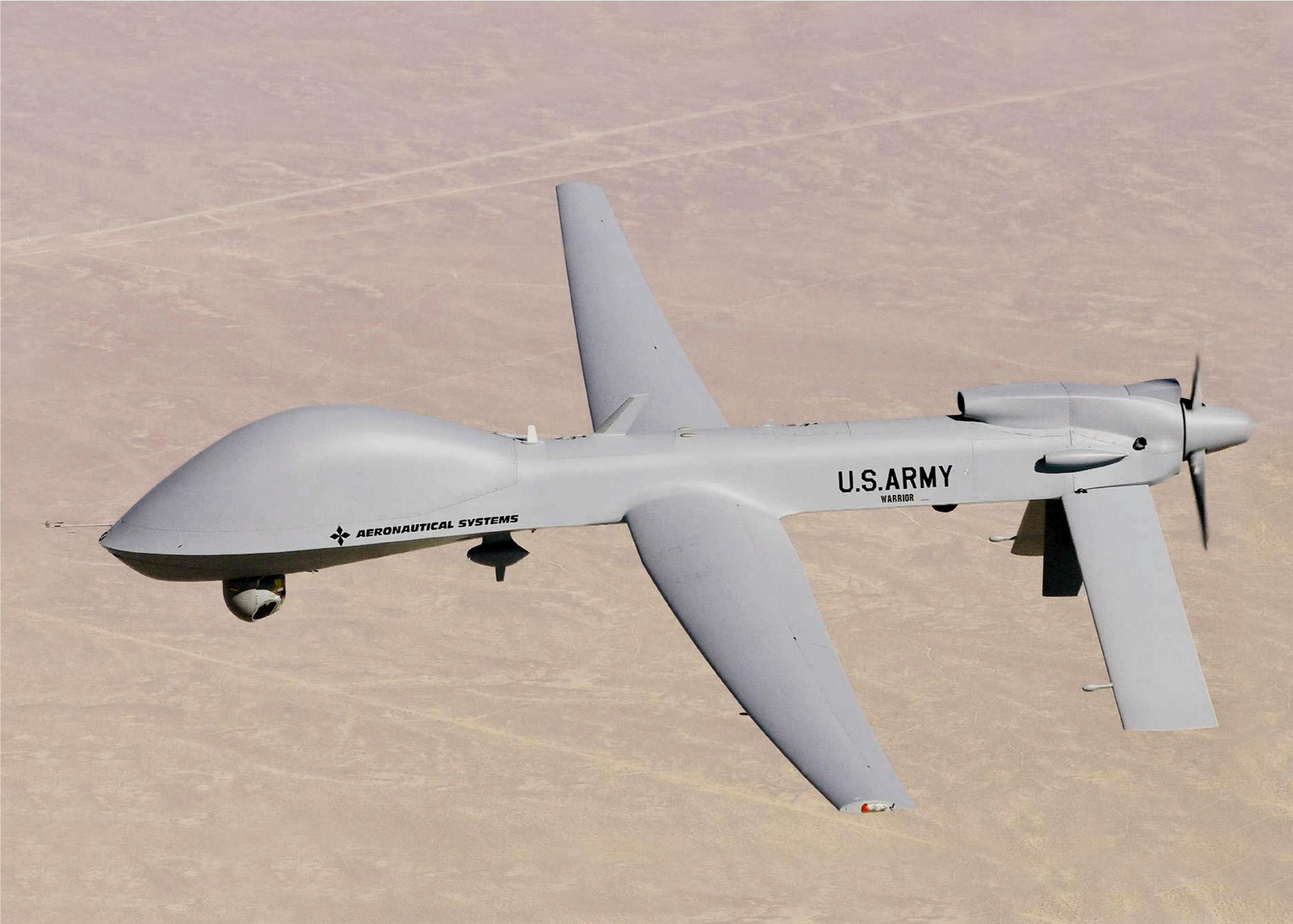 A photo of the US Army's new MQ-1C Warrior UAV